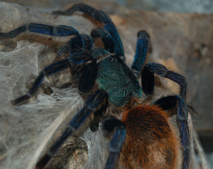 Taken by Justin Overholt Chromatopelma cyaneopubescens, Theraphosidae